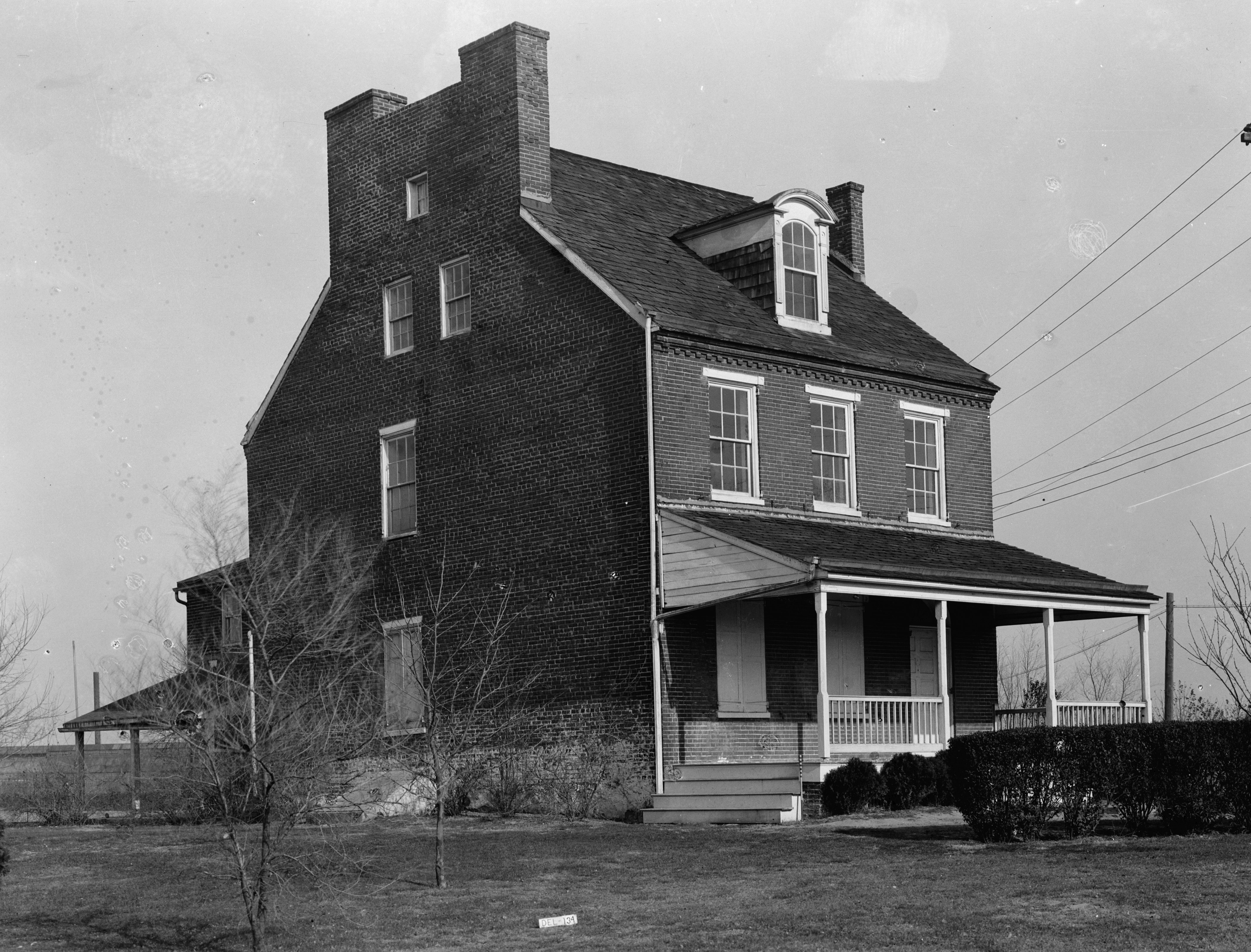 Historic American Buildings Survey W. S. Stewart, Photographer Nov. 23, 1936 VIEW FROM SOUTH WEST - Glebe House, Sixth Street East of Route 9, New Castle, New Castle County, DE